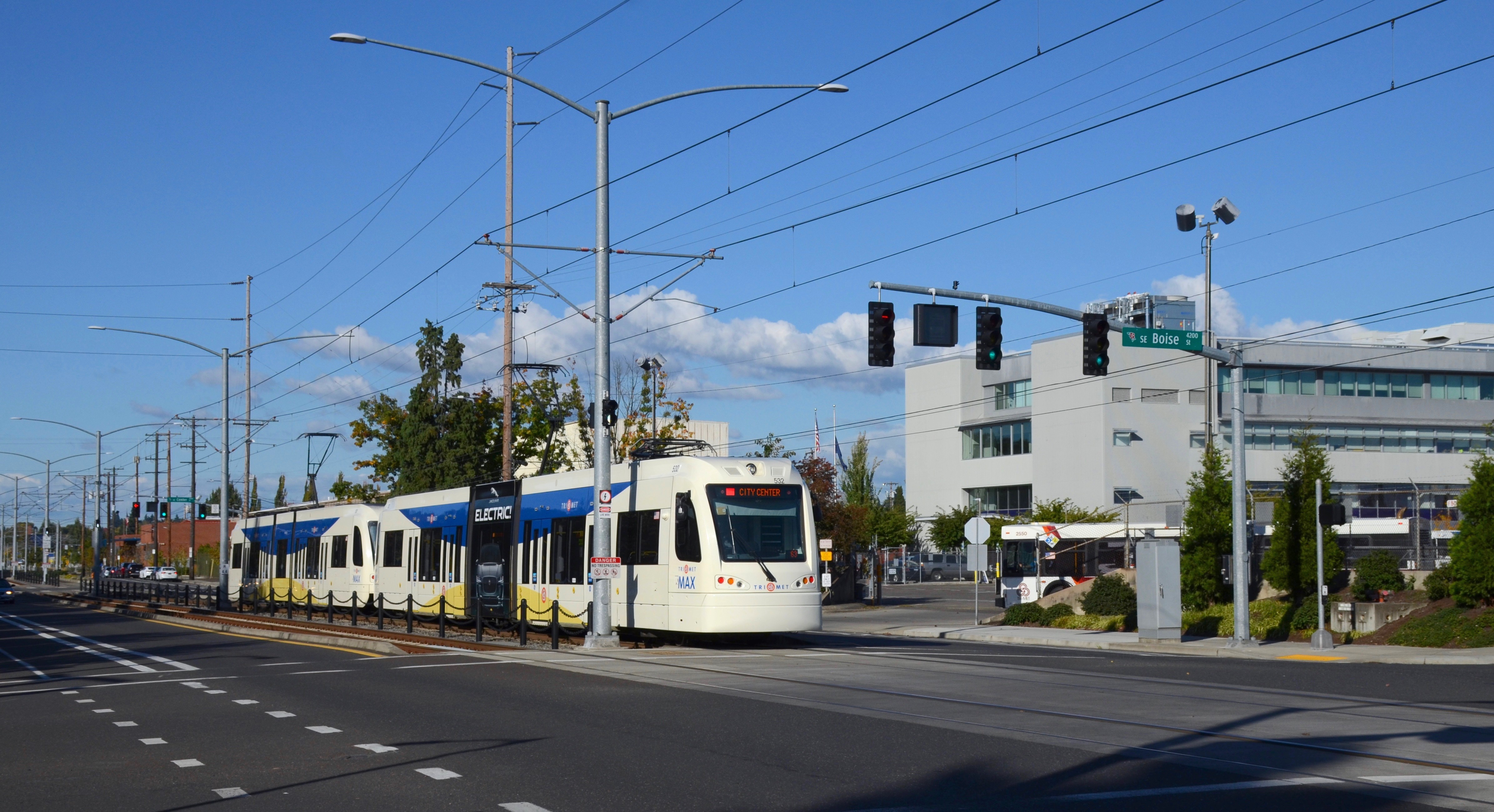 A northbound train on the MAX Orange Line on SE 17th Avenue at Boise Street, passing TriMet's Center Street Garage and Operations Headquarters (the gray building in the righthand background). This train is composed of two Type 5 cars (532 + 531), which are Siemens model S70. At right, a bus (No. 2550) is waiting to pull out of the bus yard, onto northbound 17th, on its way into service.